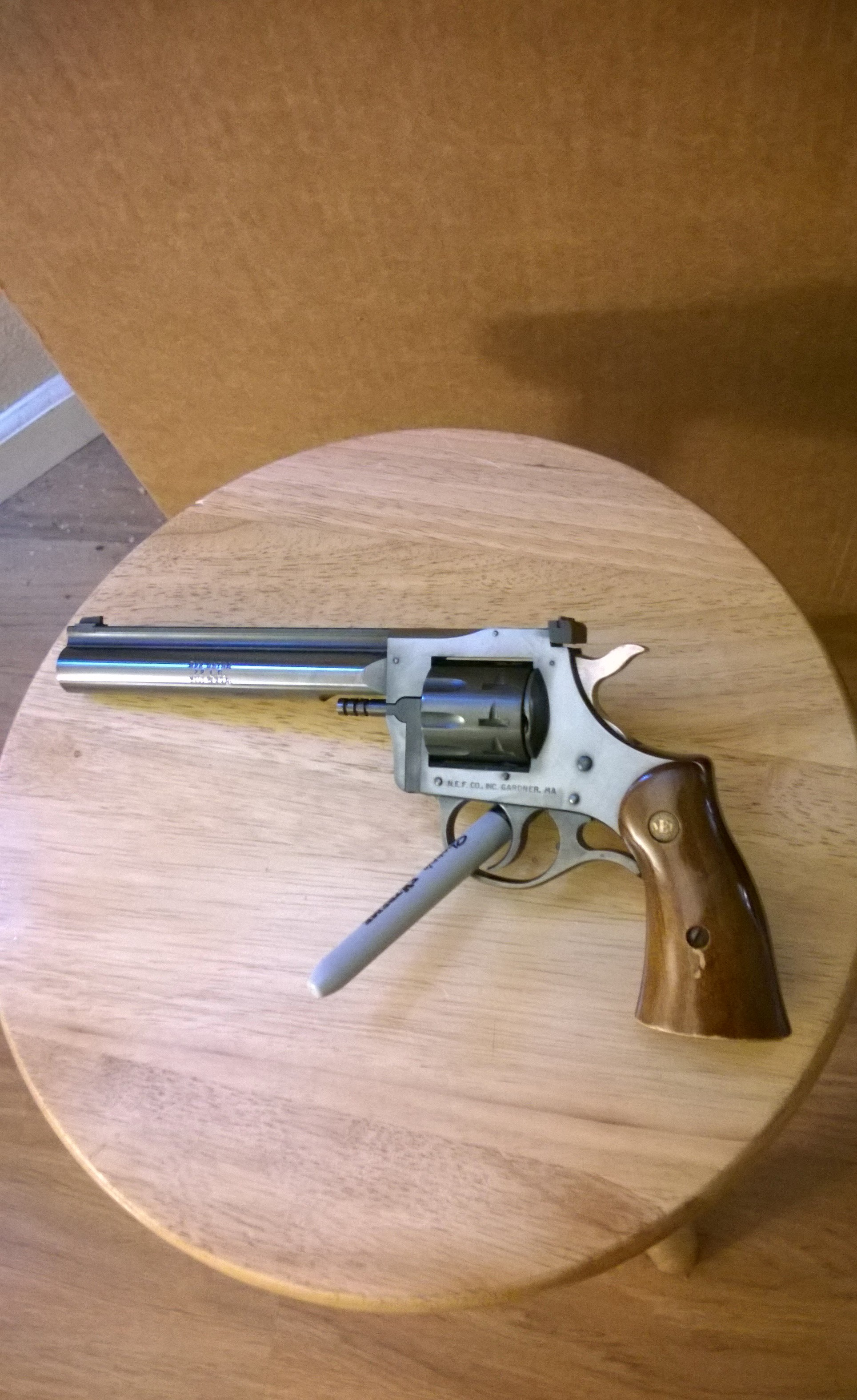 This is an New England Firearms (NEF) R92 Ultra Revolver in .22 LR with six inch barrel.